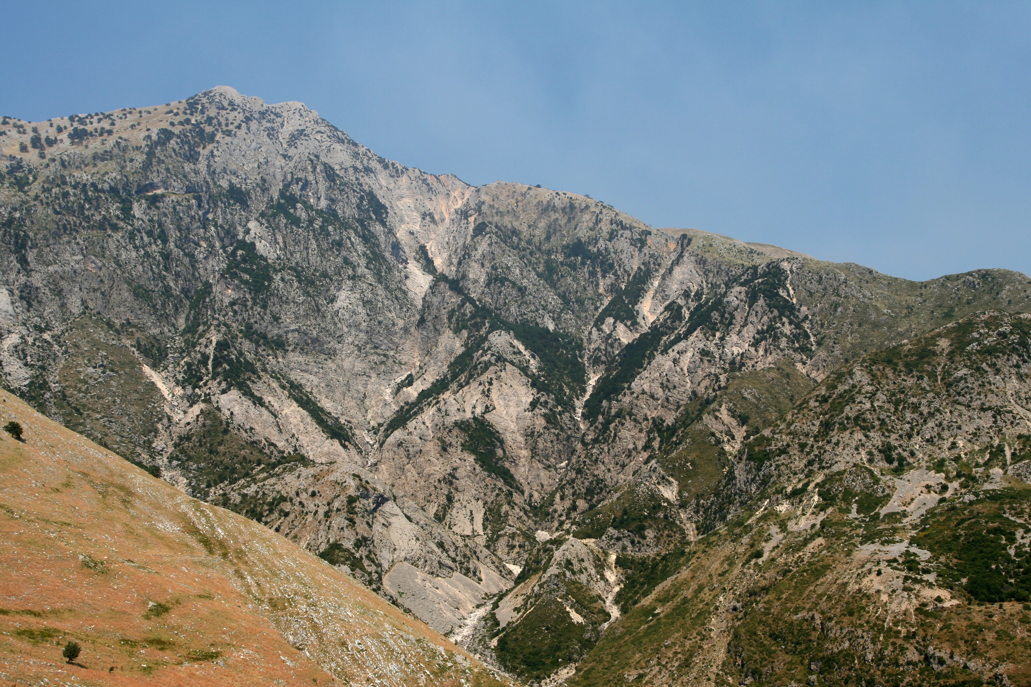 Mountains of the National Park of Llogara, Çika Mountain shown (Mali i Çikës), Himara, Albania